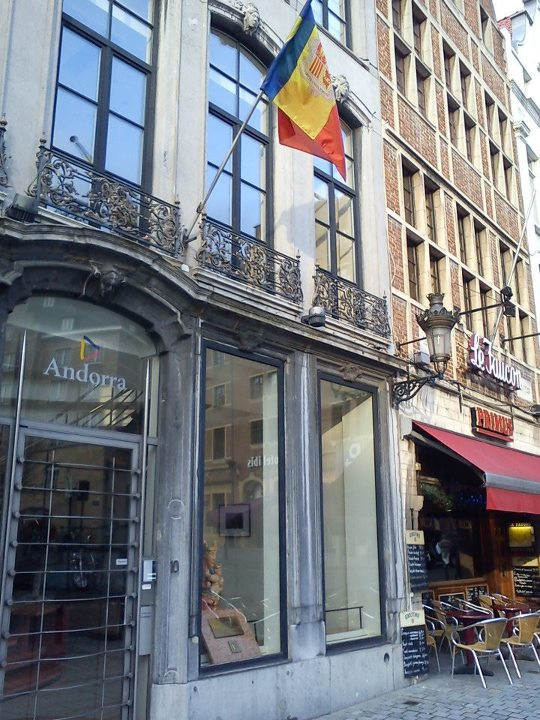 Embassy of Andorra in Brussels